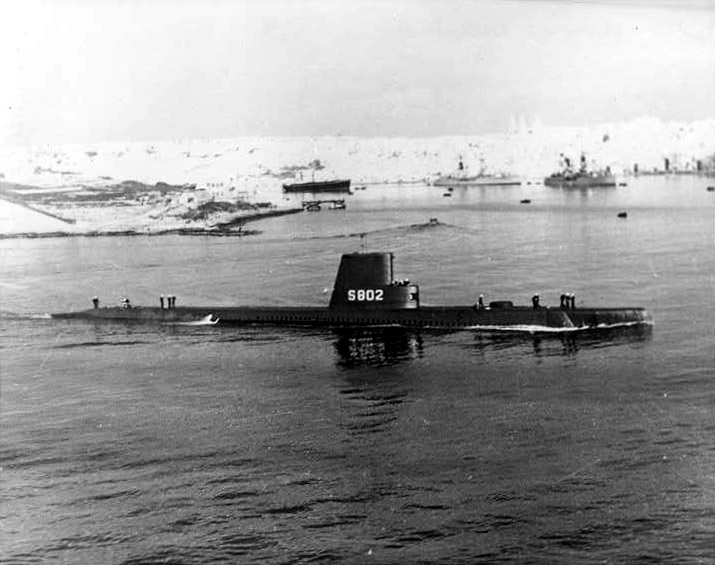 HNLMS_Walrus; Starboard side view of the Icefish (SS-367) after her transfer (loan) under terms of the Military Defense Assistance Program, to The Netherlands, renamed, Walrus (S-802) circa 1953-71. USN photo courtesy of .